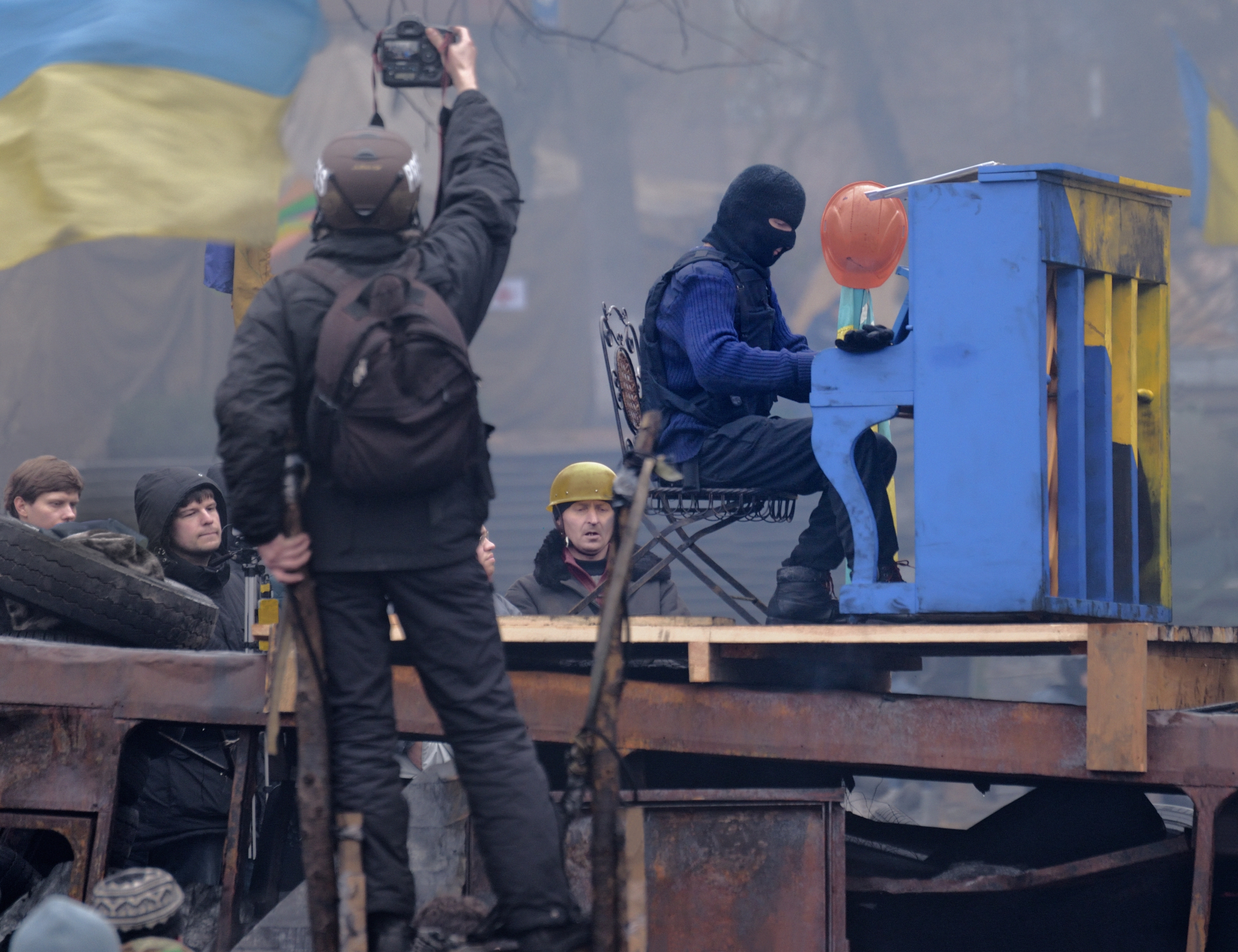 A Euromaidan protester (Piano Extremist) is playing piano on the roof of a burned Berkut bus. The barricade across Hrushevskoho str. Kiev, 10 February 2014.